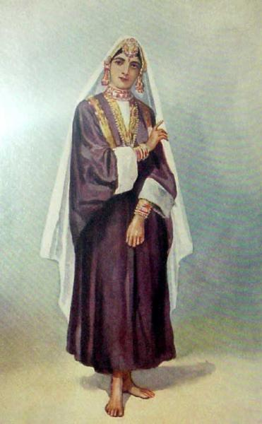 "A Rajput lady from Kutch," a watercolor by Rao Bahadur M. V. Dhurandhar, 1928; more watercolors from the set: *"A working woman at Ajmere"* *"ABengali lady"* *"A Bhatia lady"* *"A Bhil girl"* *"A Bombay lady"* *"A Borah lady, Surat"* *"Born beside the sacred river"* *"A Brahman lady"* *"From Burmah"* *"Cambay type"* *"A dancer in Mirzapur"* *"A dancer from Tanjore"* *"A widow in the Deccan"* *"A dyer girl, Ahmedabad"* *"A fisherwoman, Sind"* *"A fishwife of Bombay"* *"A denizen of the Western Ghauts"* *"A gipsy woman"* *"A Gond woman"* *"A glimpse at a door in Gujarat"* *"A Gurkha's wife"* *"A Jain nun"* *"A lady from Jodhpur"* *"In the happy valley of Kashmir"* *"A Muslim artisan, Kathiawad"* *"A Khoja lady, Bombay"* *"A Mahar woman"* *"A Marathi lady"* *"A Memon lady walking"* *"A lady from Mewar* *"The milkmaid"* *"A mill hand"* *"A Mussulman lady"* *"A Mussulman nautch-girl"* *"A Mussulman weaver"* *"A lady from Mysore"* *"A Nagar beauty"* *"A Naikin in Kanara"* *"A Nair lady"* *"Parsi fashion"* *"A Pathan woman"* *"A Pathare Prabhu lady"* *"A Rajput lady, Kutch"* (shown above) *"A Southern India type"* *"A sweeper lady"* *"A Toda woman in the Nilgiries"* *"A lady of the United Provinces"* Source: ebay, Aug. 2006